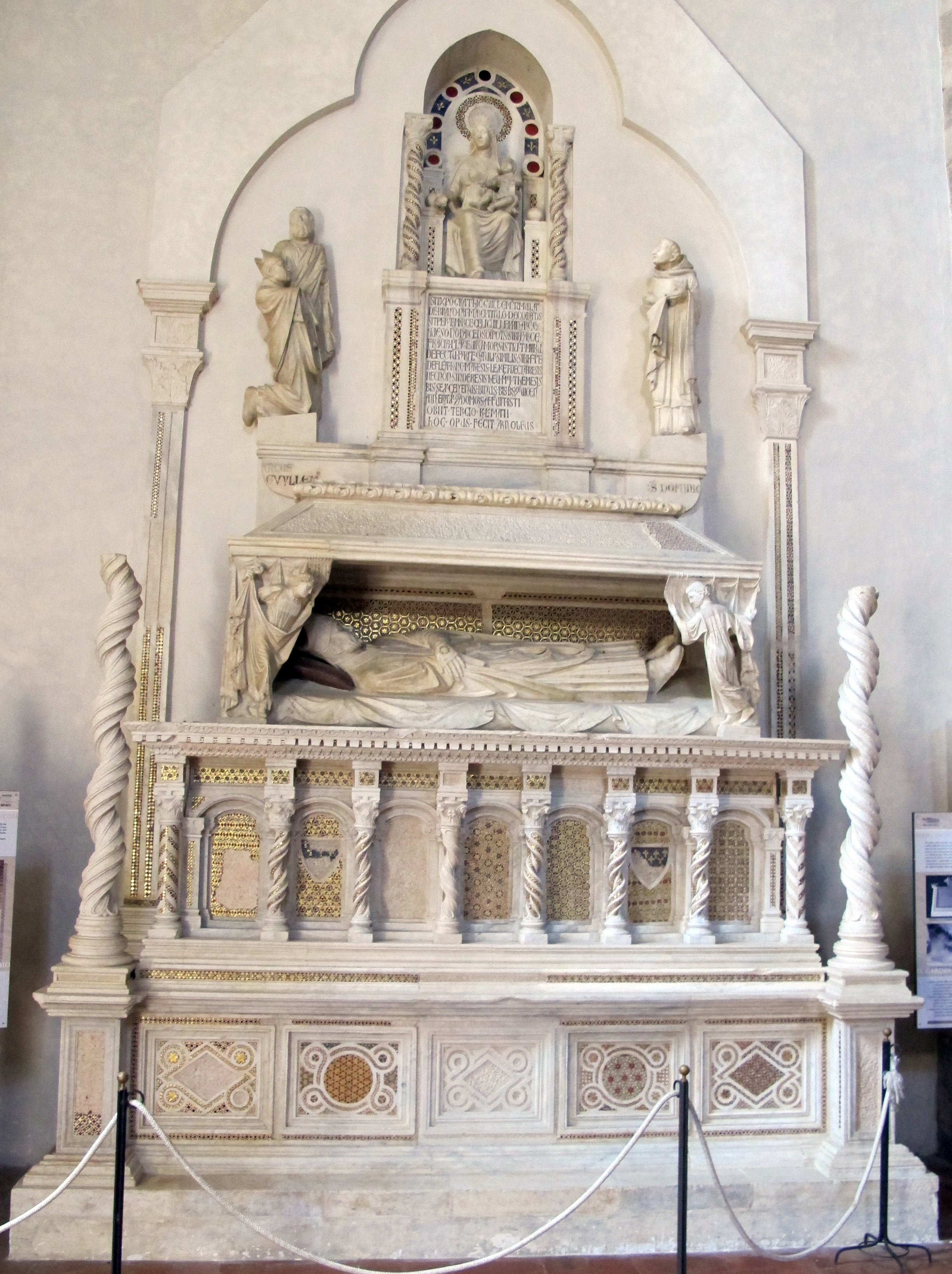 Monument to cardinal De Braye